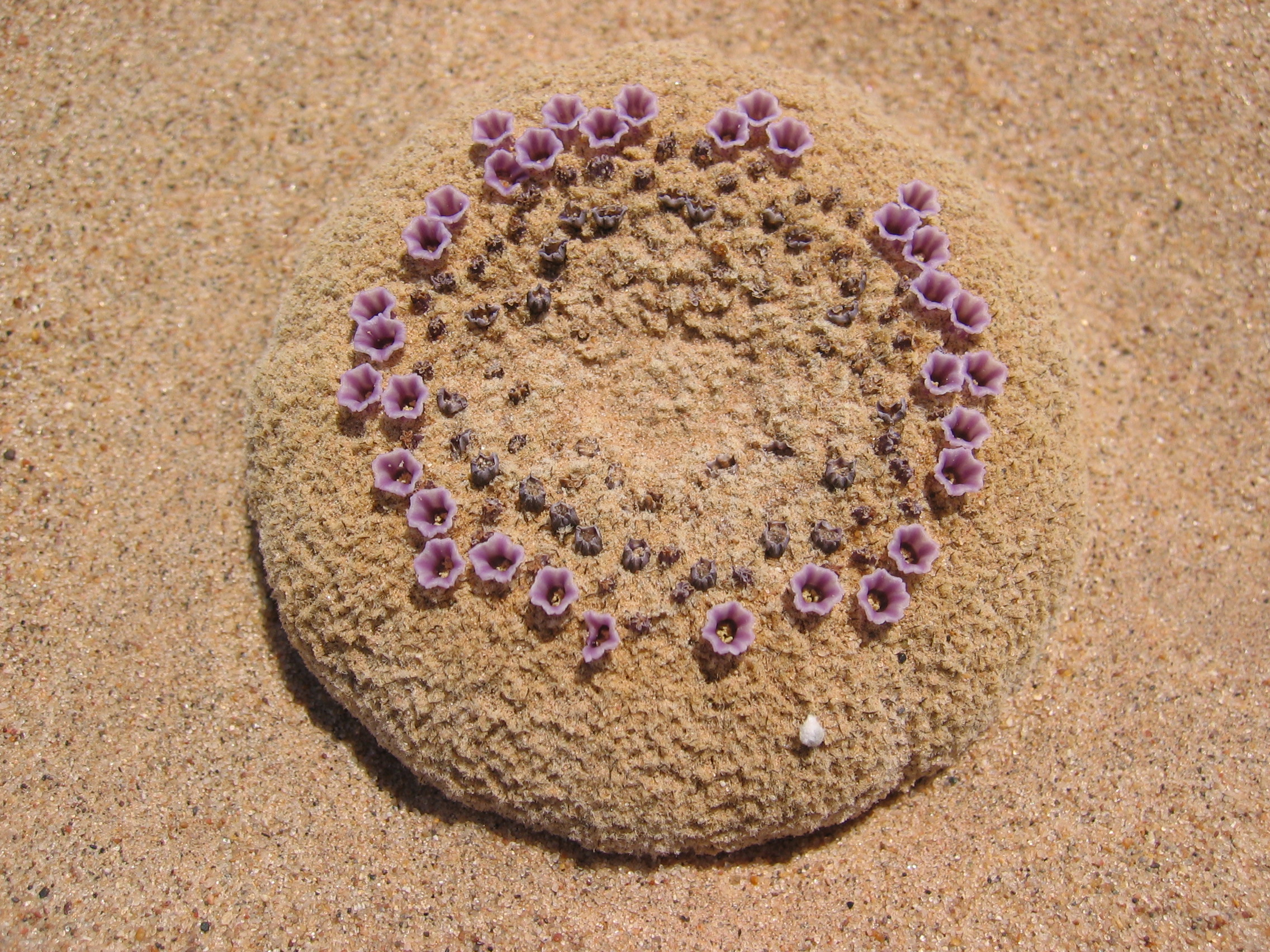 Pholisma sonorae (sand food) is a rare plant found in the deserts of southeastern California, Arizona, and El Gran Diesierto in Sonora, Mexico. This parasitic plant has a long stem that reaches about 6 feet below the surface where it attaches to the root of a nearby host plant such as desert buckwheat. Photo credit: USFWS/Jim A. Bartel